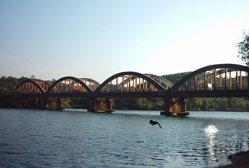 this is the bridge situated in the kuppam river, at kuppam, taliparamba, kannur, kerala, India